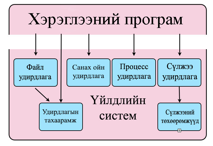 Device management